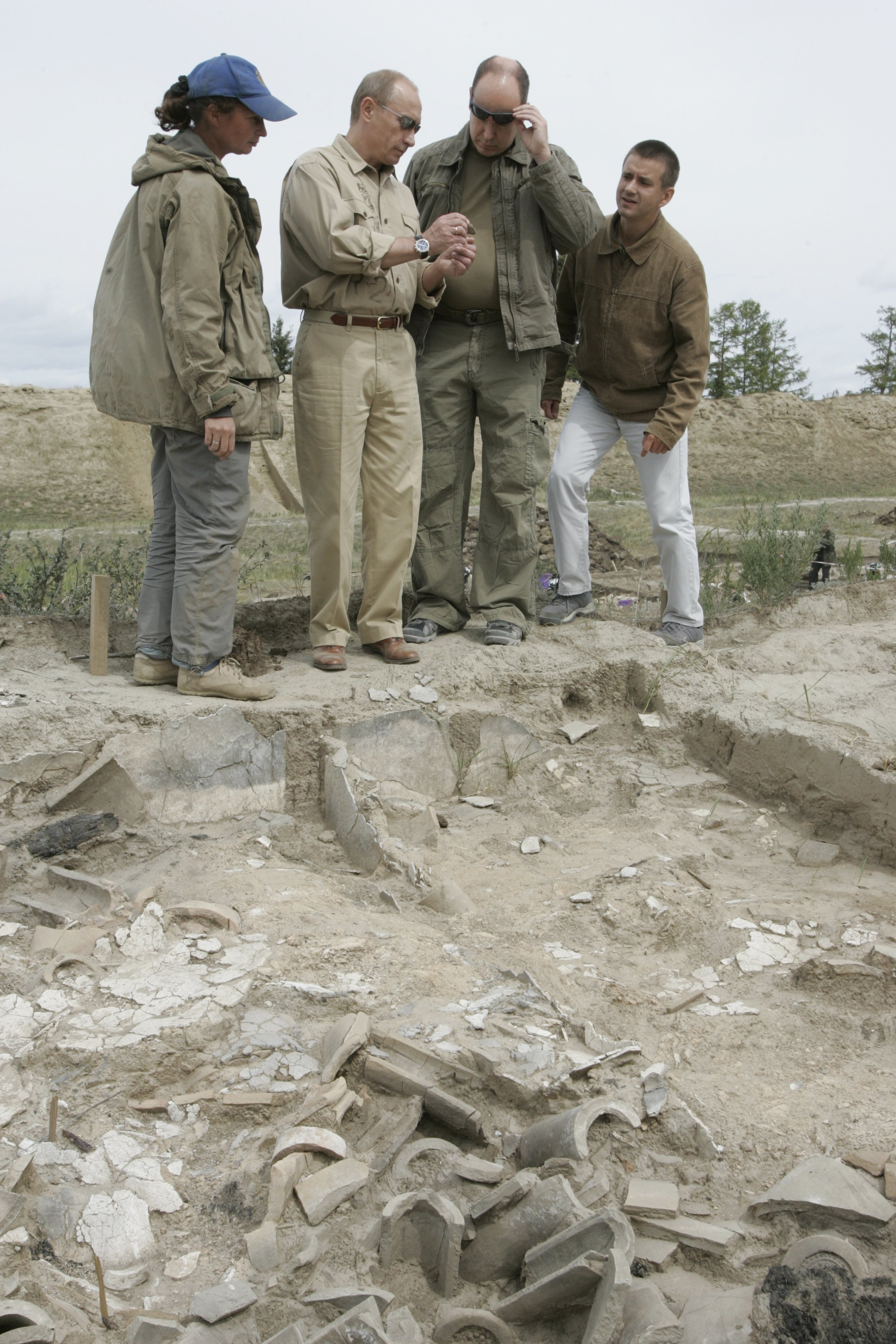 TUVA. At the Por-Bazhyn Fortress archaeological excavation site.